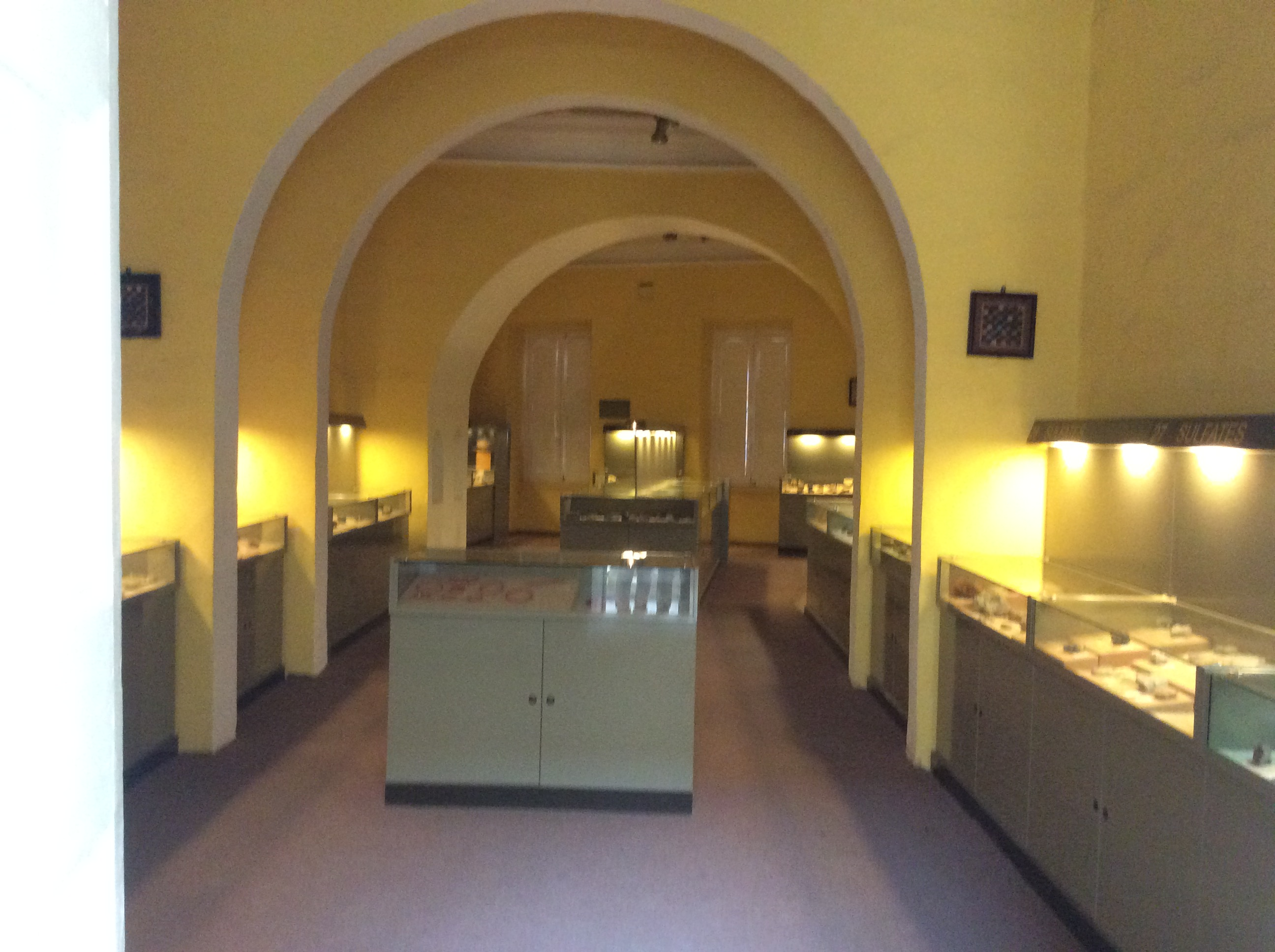 Interior of the Museum of Palazzo Vilhena